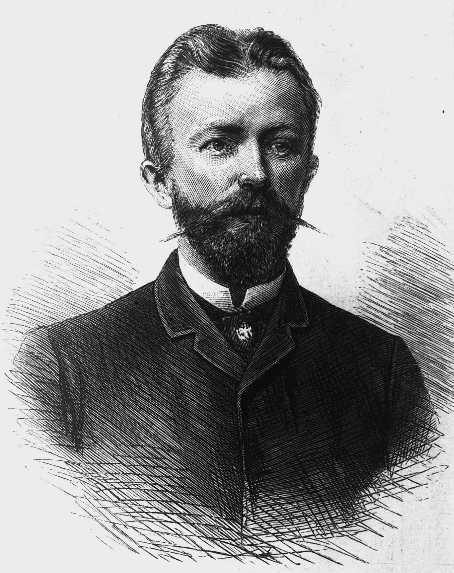 German traveller Karl Jühlke (1856-1880)